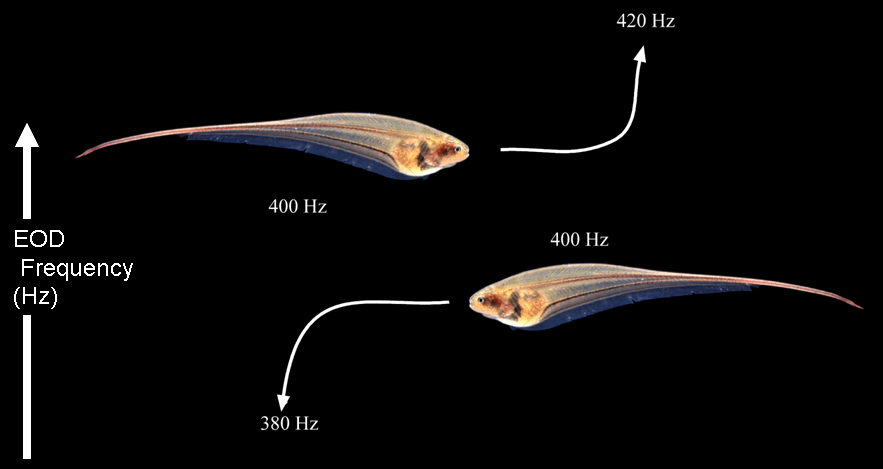 The Jamming Avoidance Response (or J.A.R.) of the weakly electric fish, Eigenmannia virescens